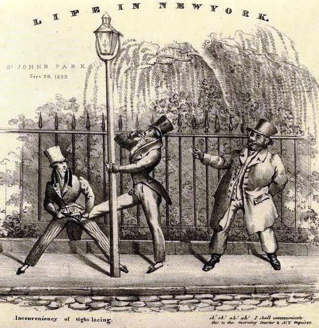 "Life in New York: The inconvenience of tight lacing" by Edward Williams Clay, 1829 Image Title: Life in New York. Alternate Title: Inconveniency of tight lacing. Creator(s): Clay, Edward Williams, 1799-1857 -- Artist Imbert -- Lithographer Depicted Date: 1829 Specific Material Type: prints Item Physical Description: 1 print : b&w ; 19 x 21 cm. (7 1/2 x 8 1/4 in.) Notes: Printed on border: "St. Johns Park Sept. 28, 1829." "Inconveniency of tight lacing." "oh! oh! ah! ah! I shall communicate this to the morning enquirer & N.Y. enquirer." Source: Mid-Manhattan Picture Collection / Costume -- 1820s -- American Source Description: 1 folder (3 pictures) Location: Mid-Manhattan Library / Picture Collection Catalog Call Number: PC COSTU-182-Am Digital ID: 801947 Record ID: 691799 Digital Item Published: 10-27-2005; updated 3-25-2011